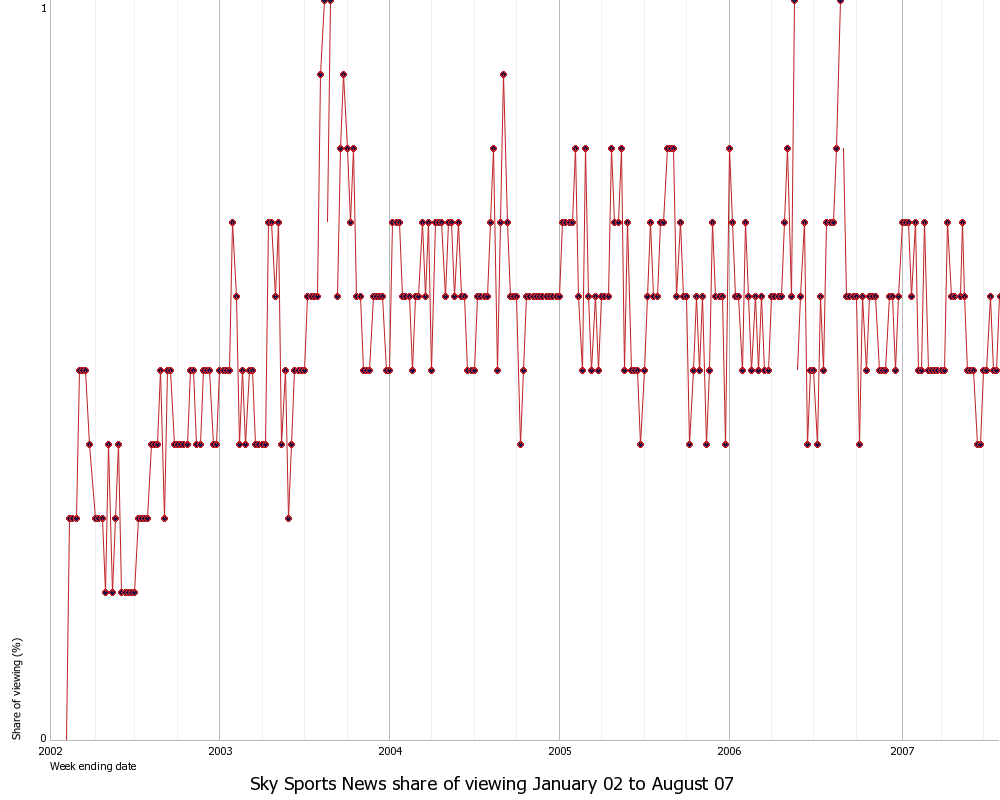 Sky Sports News viewing figures 2002-2007